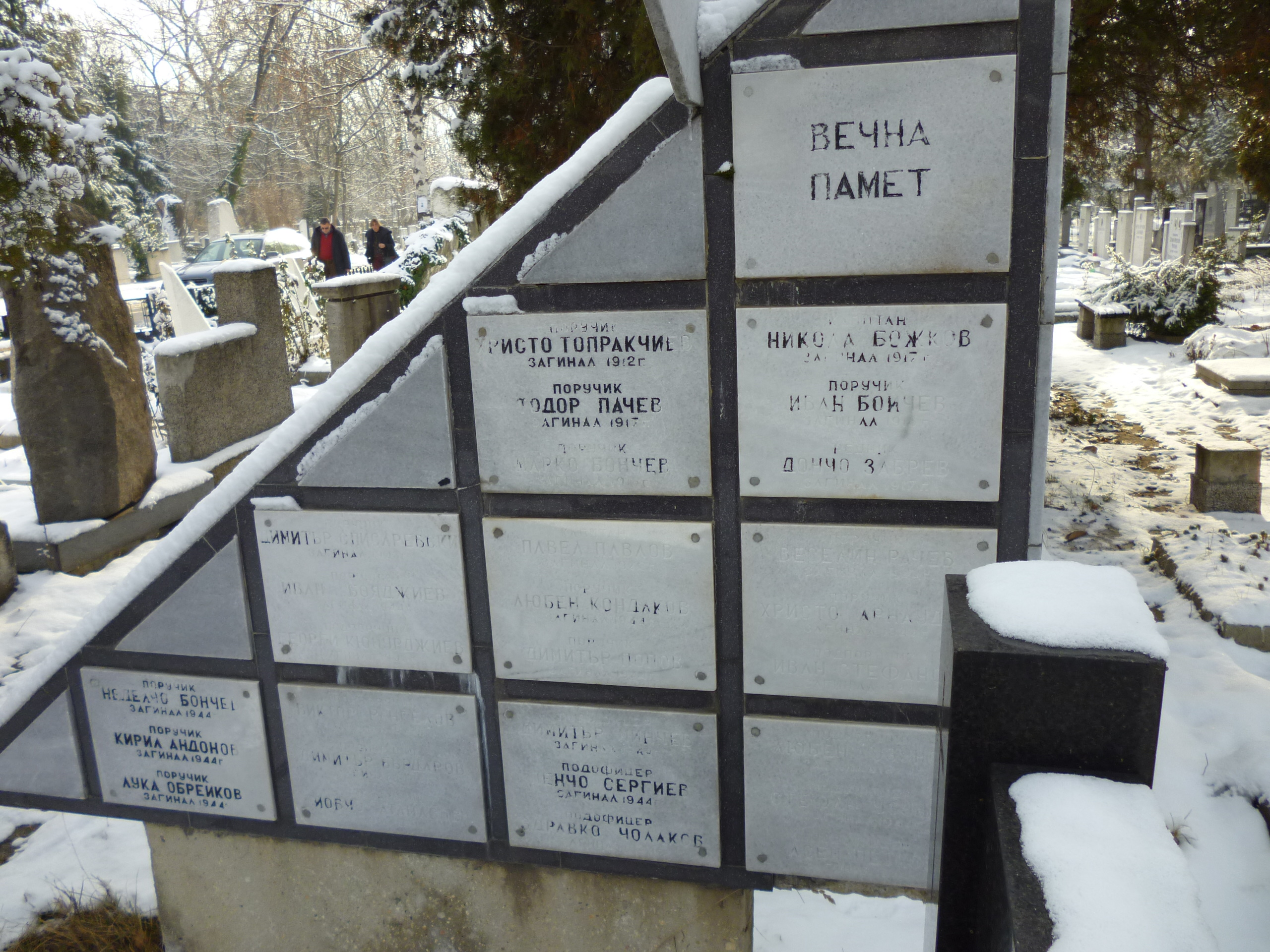 Memorial of bulgarian ww2 fighter pilots in Central Sofia grave park